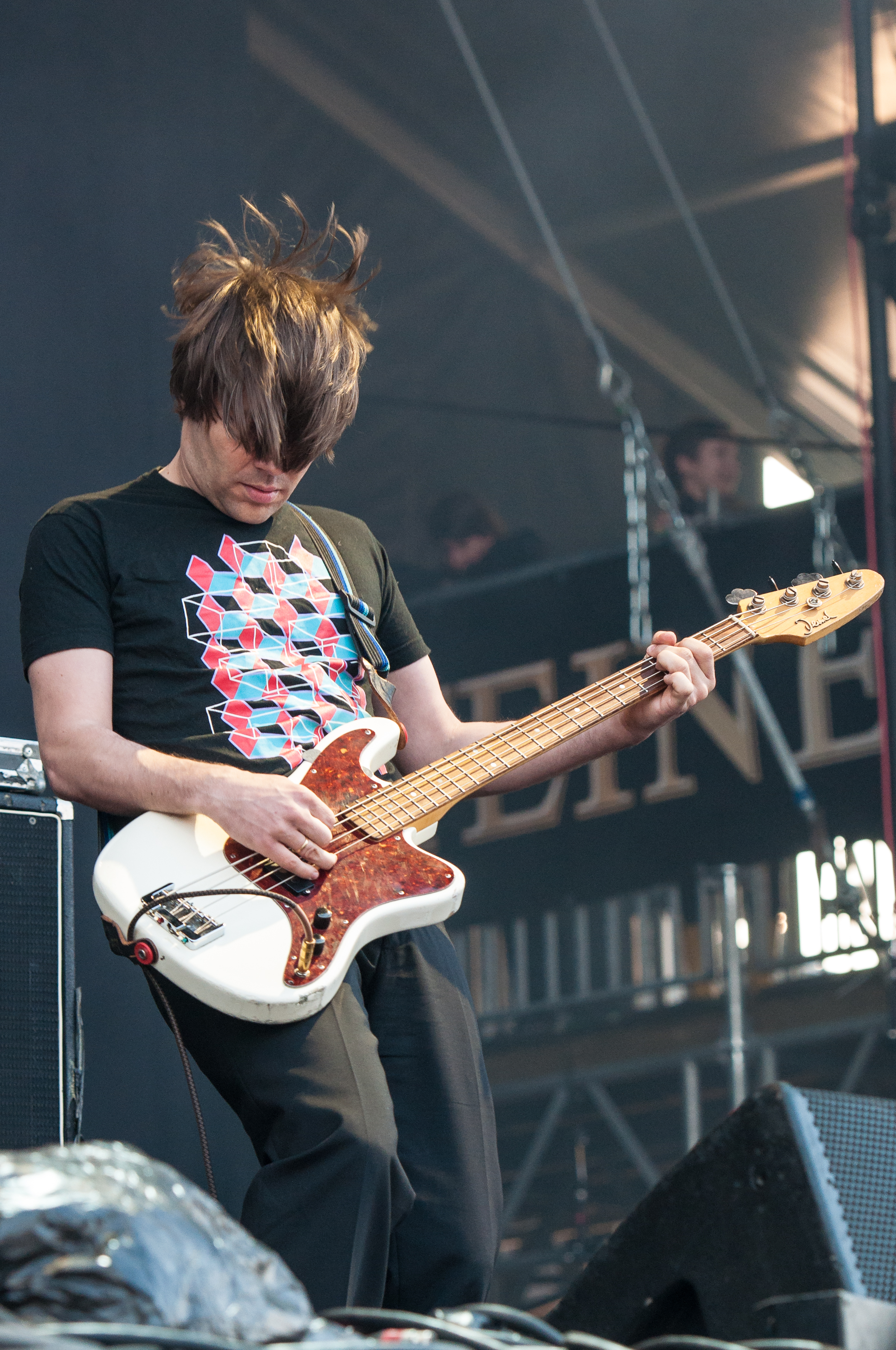 Tocotronic Bassist Jan Müller bei Rock am Ring 2013